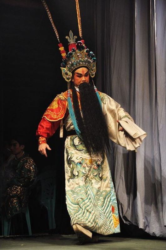 Sheng in Teochew Opera